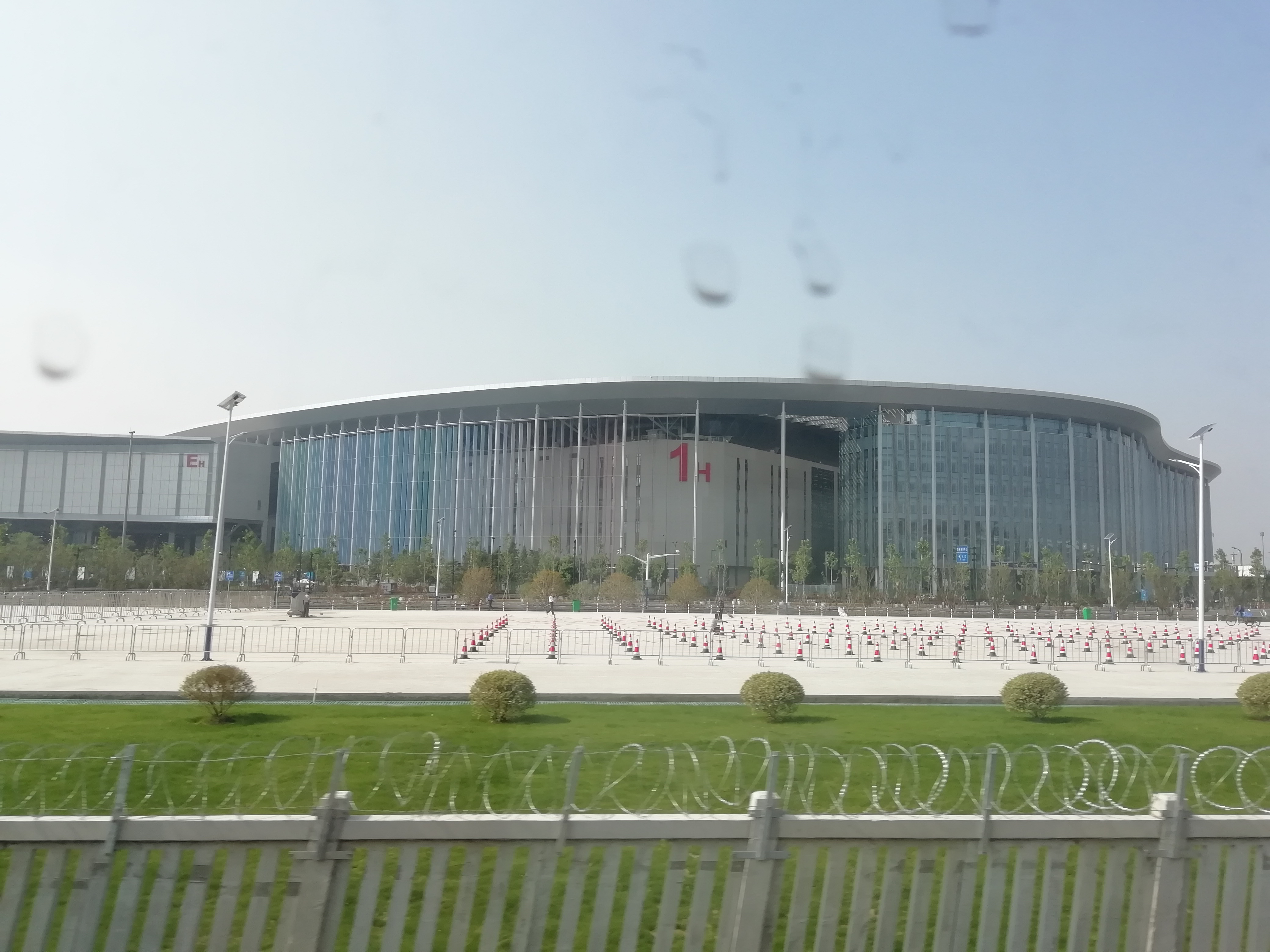 1H area of National Exhibition and Convention Centre (Shanghai). This is the host place of China International Import Expo (CIIE). 中文（中国大陆）: 上海国家会展中心的1H展区。此为中国国际进口博览会的举办地。